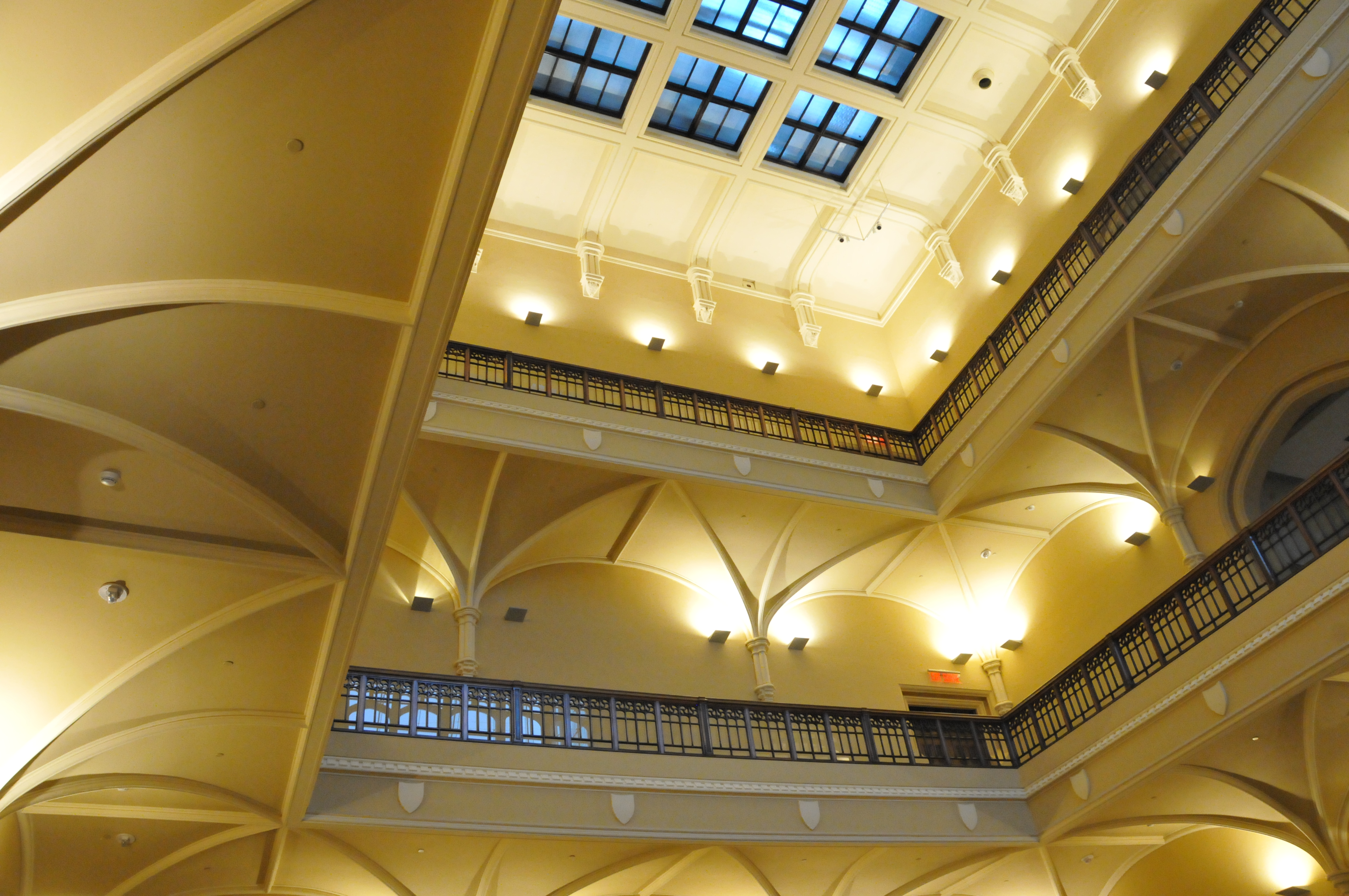 The ornate ceiling of the revitalized Museum of Nature, Ottawa, Canada.